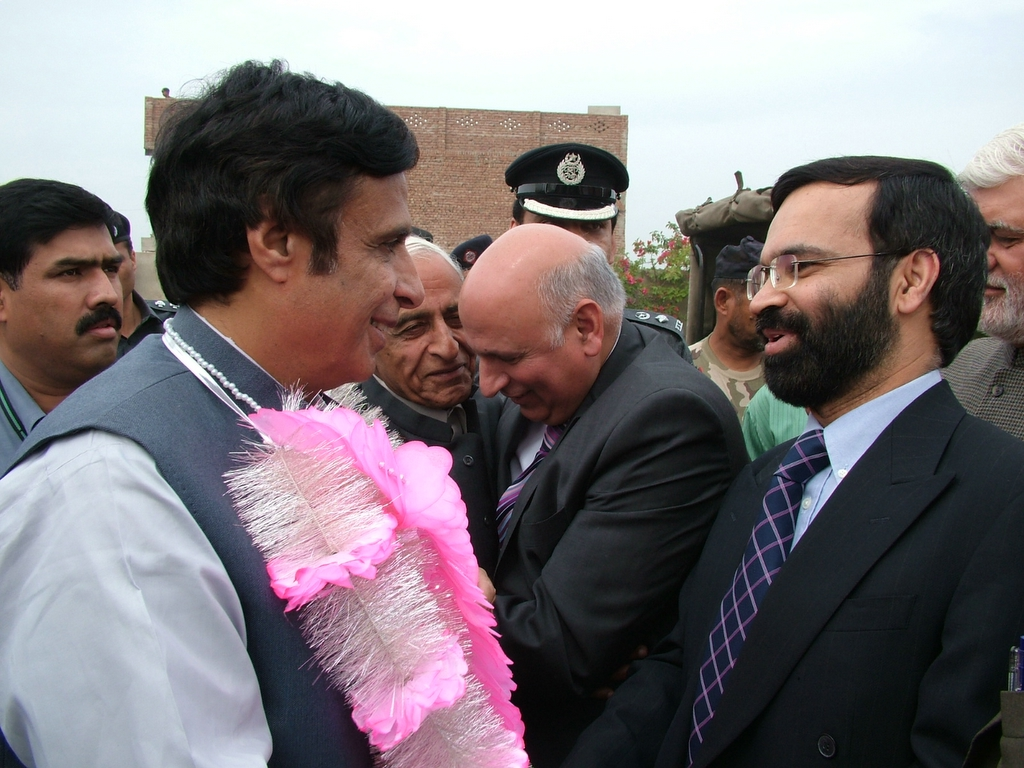 Mahmood Hassan, Chairman of Islamic Aid, greets the Chief Minister of Punjab at the inauguration cermoney of a 65 bedded hospital in Rajana, Faisalabad, Pakistan. The Hospital is serving a target population of over 200,000 people in this rural area.